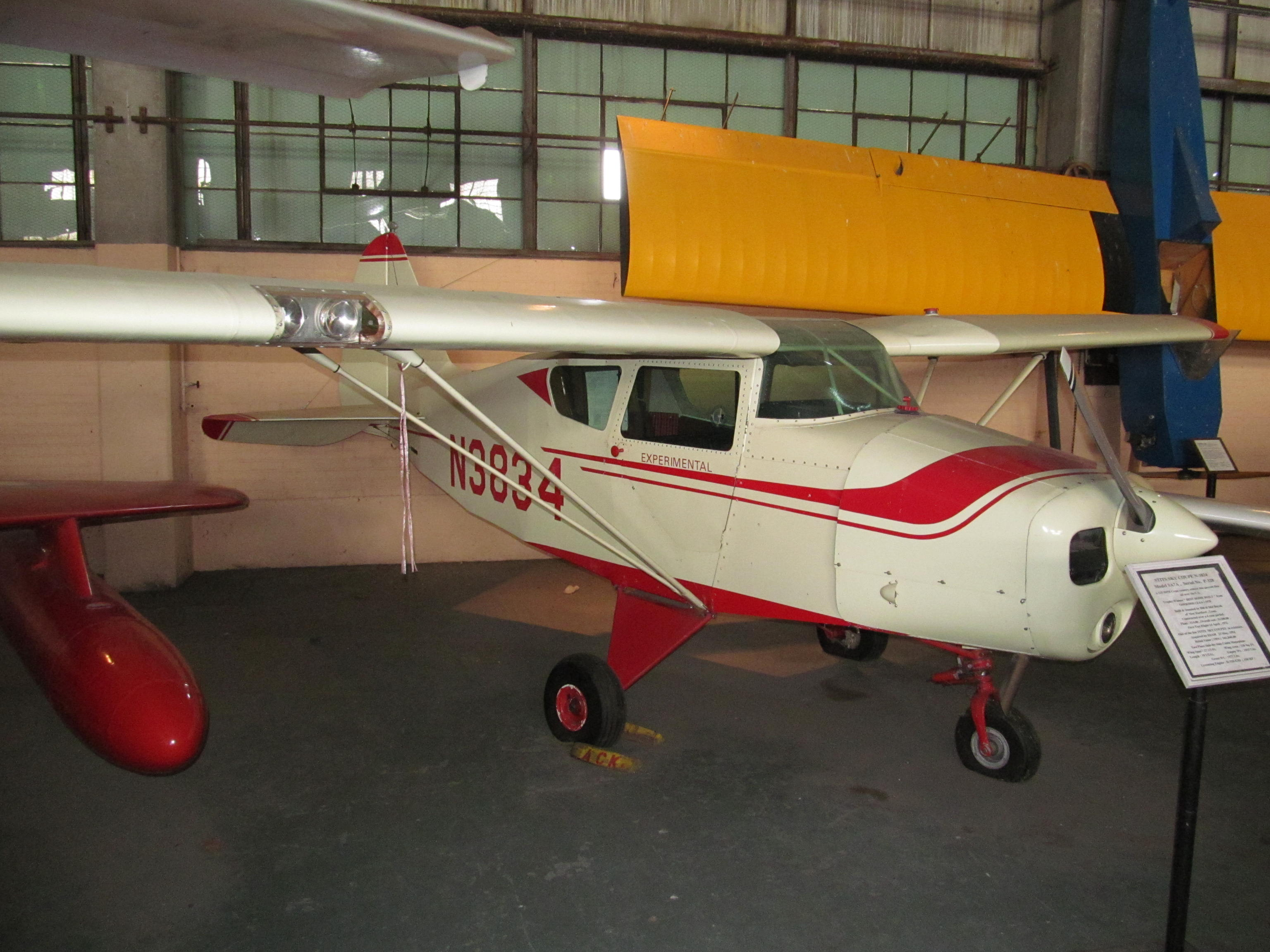 Empire State Aerosciences Museum - Glenville, New York